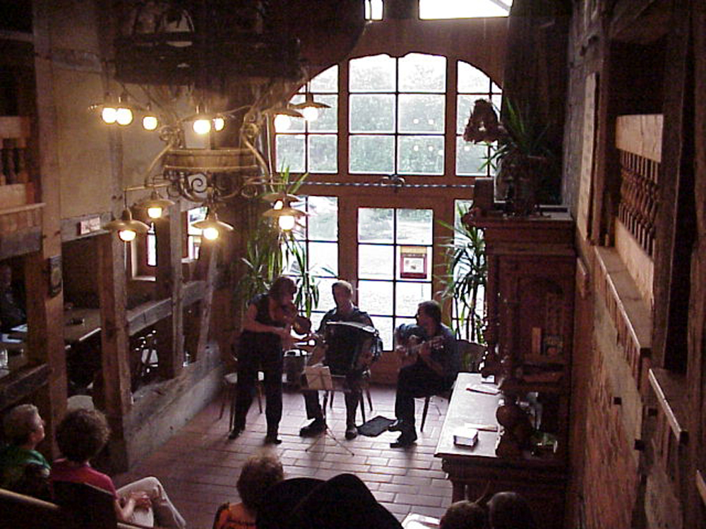 Klezmer in a guildhall